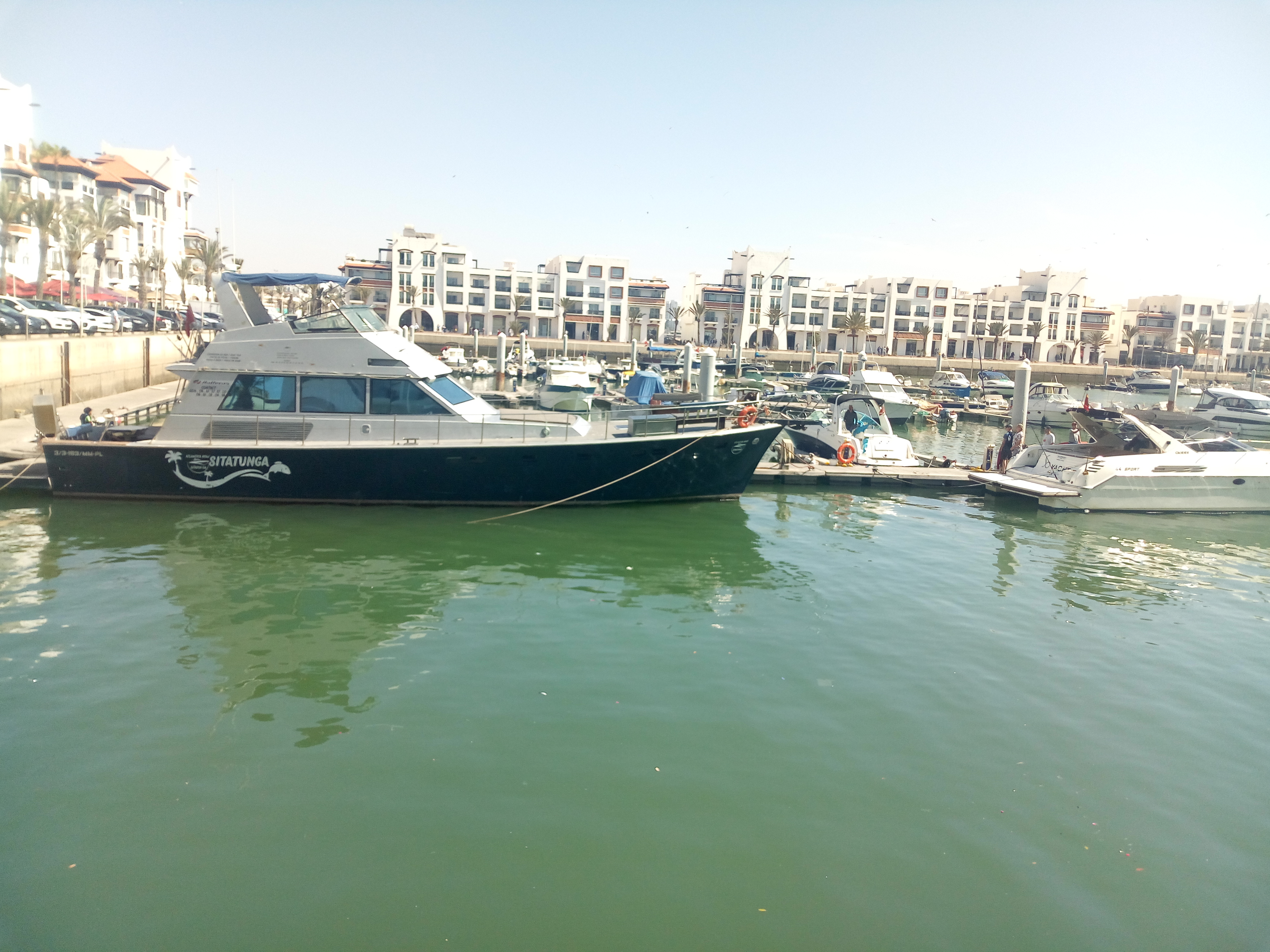 Cruise ships in Marina Agadir 3 by AmlouMed This is an image with the theme "Africa on the Move or Transport" from: Morocco